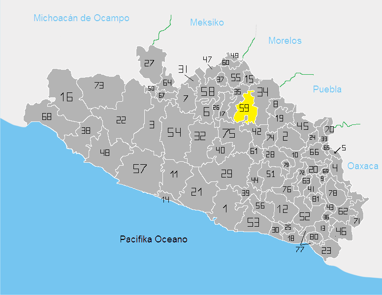 Locator maps of municipalities of Guerrero